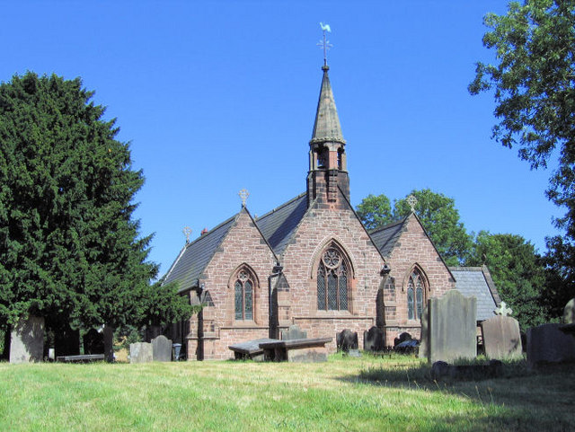 Photograph